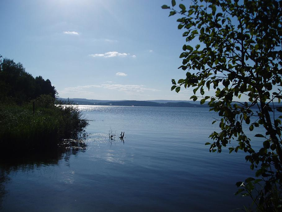 View on Lake Tavatuy of the nature of Western Siberia. Located to the southeast of Novouralsk and to the northwest of Yekaterinburg, Sverdlovsk Oblast, Russia. Picture taken in summer 2005